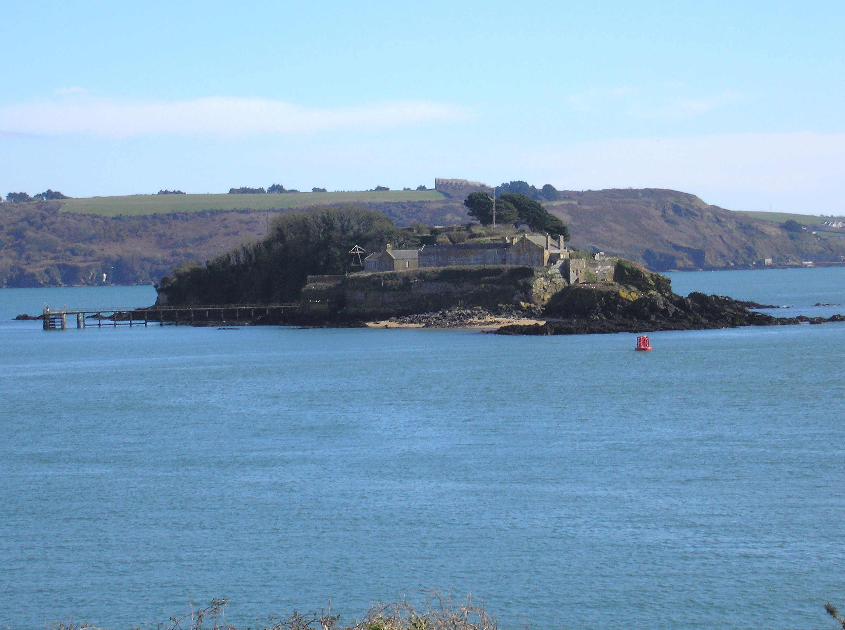 Peering across at 'Drake's Island' 18 March 2013. Camera: Olympus FE-120 6.0 Digital.